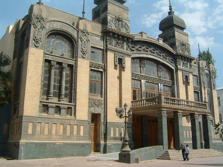 Azerbaijan State Academic Opera and Ballet Theatre